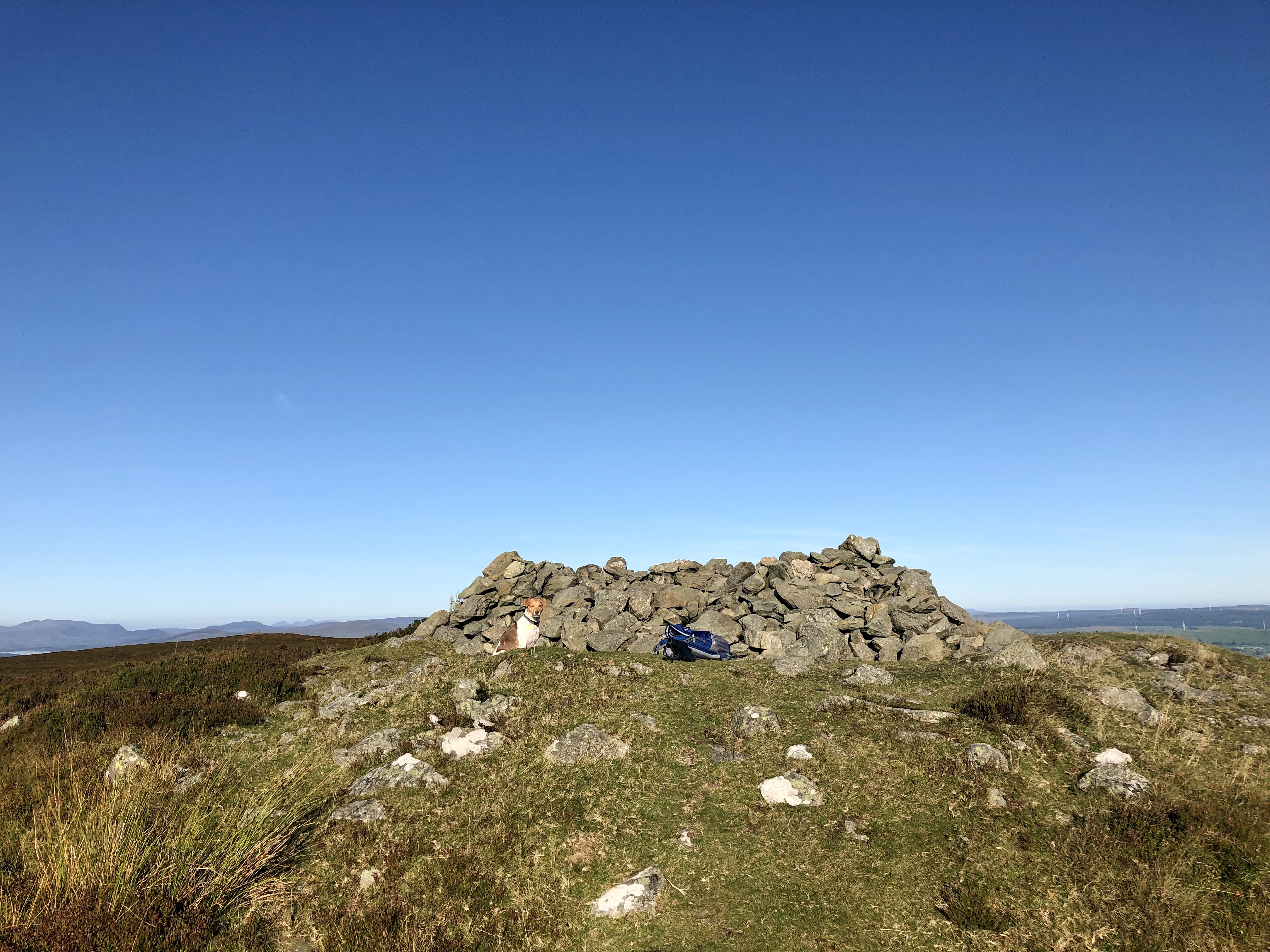 Cairn at Moel Fferna